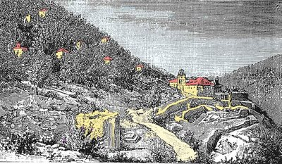 Desierto de Bolarque - Monastery at Bolarque in spain showing the chapels up the hillside. Founded by Thomas á Jesu est 1700?????